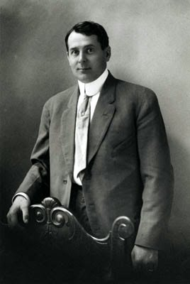 Harry Wardman, a real estate developer from Washington, D.C.